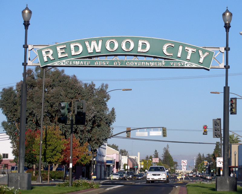 The "Redwood City" arch over Broadway at the eastern end of downtown Redwood City.